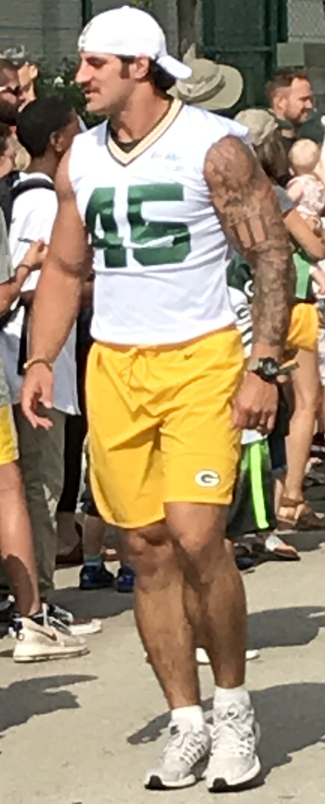 Dan Vitale, a fullback for the Green Bay Packers, before a training camp practice on August 13, 2019.